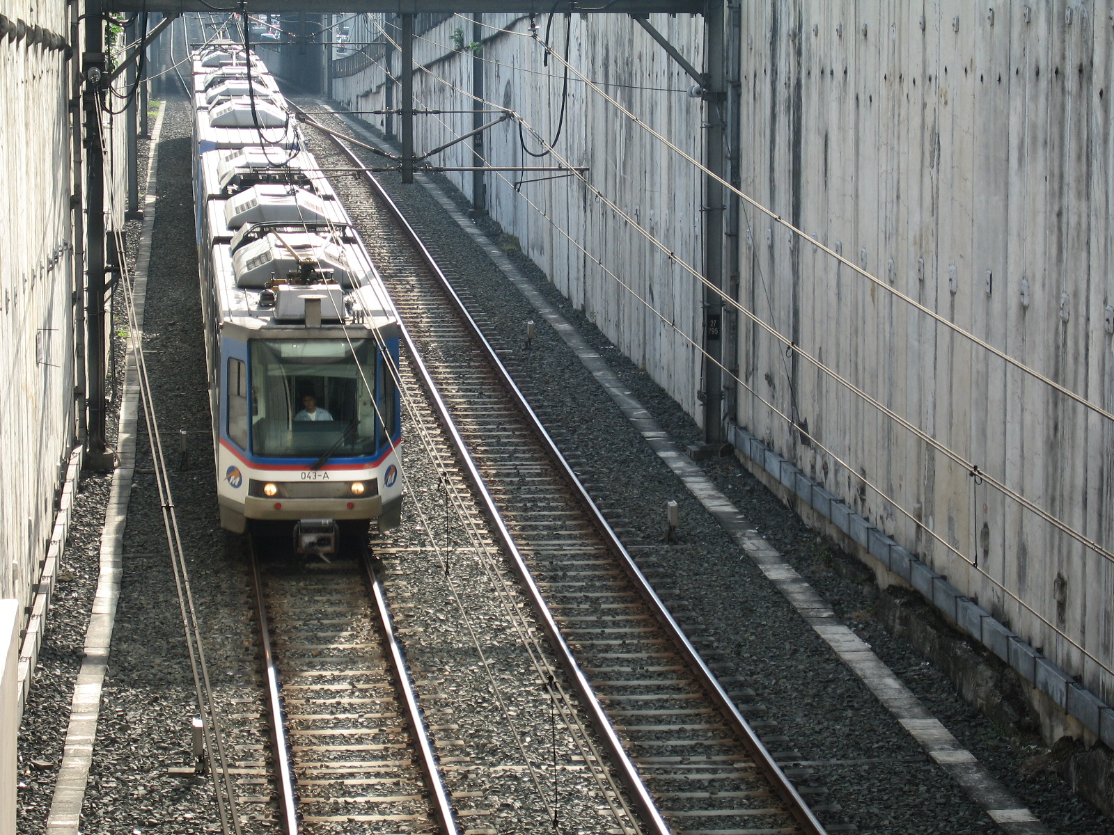 Manila MRT-3 Train (type Tatra RT8D5) approaching Ayala Station in Makati City. Self-taken.